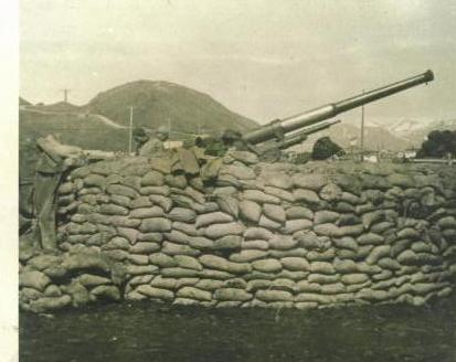 A 3in Gun Emplacement belonging to Battery D, 1st Battalion, 206th Coast Artillery, at Dutch Harbor, Alaska, following the Battle of Dutch Harobor. The back of the photo reads, "Gun at Second Gun Position. The Snd (sic) Have Several 100 Machine Gun Bullets from Jap Planes. The Hill in the background is where our pernmeant Position. Gobblers Knob (the name)300 ft. Elev Over lookng Unalaska and Captians Bay. Note the Road- We built Quite a bit of it."